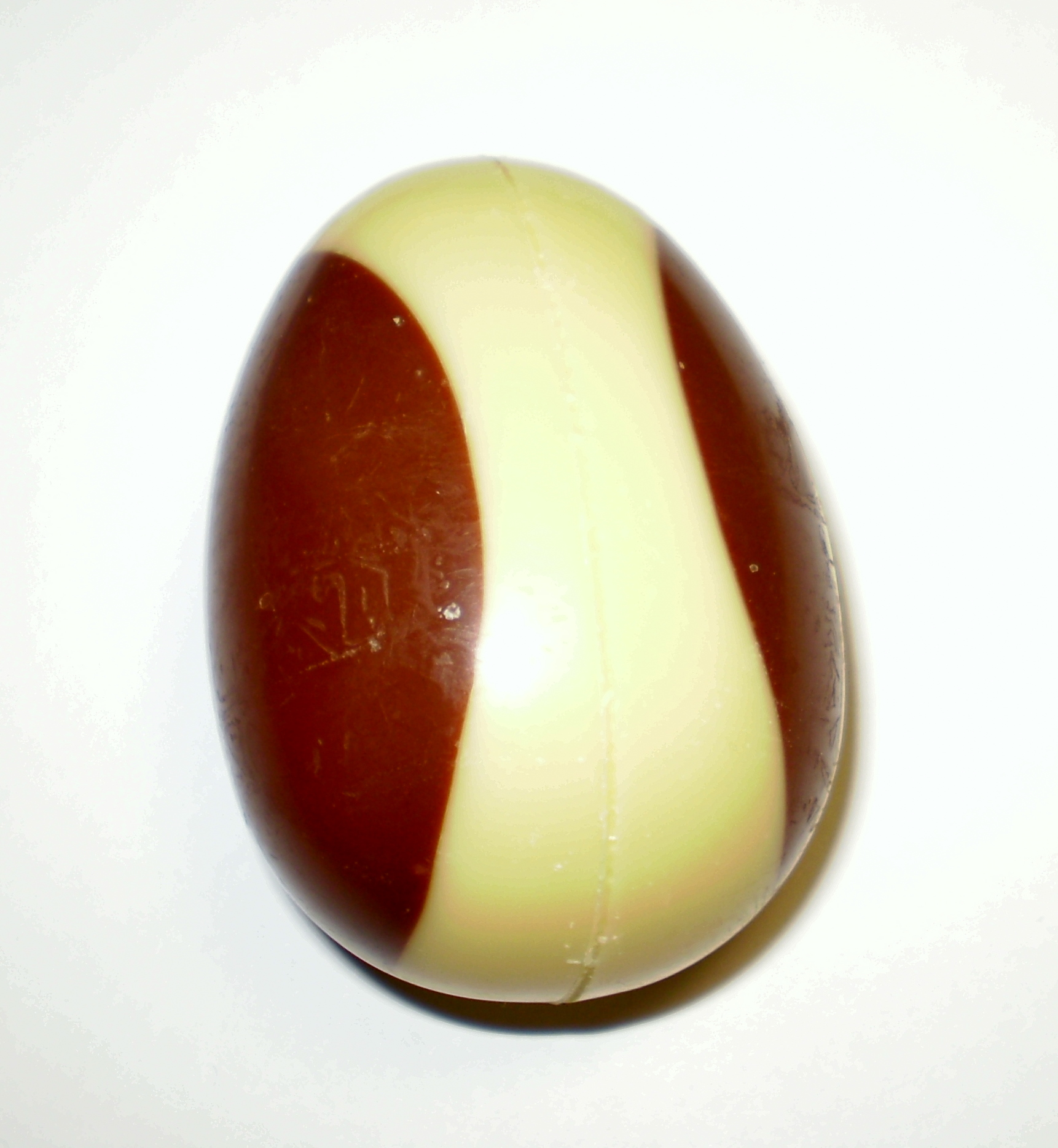 An Easter egg with milk chocolate and white chocolate